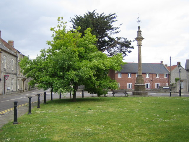 Ilchester: The Market Cross This column was built in 1795 at the north end of the town green on the site of an earlier market cross. Somerset County Council's Historic Environment Record describes it thus: "Ham stone. Circular base with two chamfered offsets, set on circular step; square stepped plinth carrying simple Doric column with entablature moulding over, then square-plan block with sundials having sheet metal gnomons, and a ball finial with wrought-iron wind vane." It is a Grade II listed structure and English Heritage Listed Building Number 263445. The top portion was blown over in a storm on 25 January 1991 and rebuilt the following year.